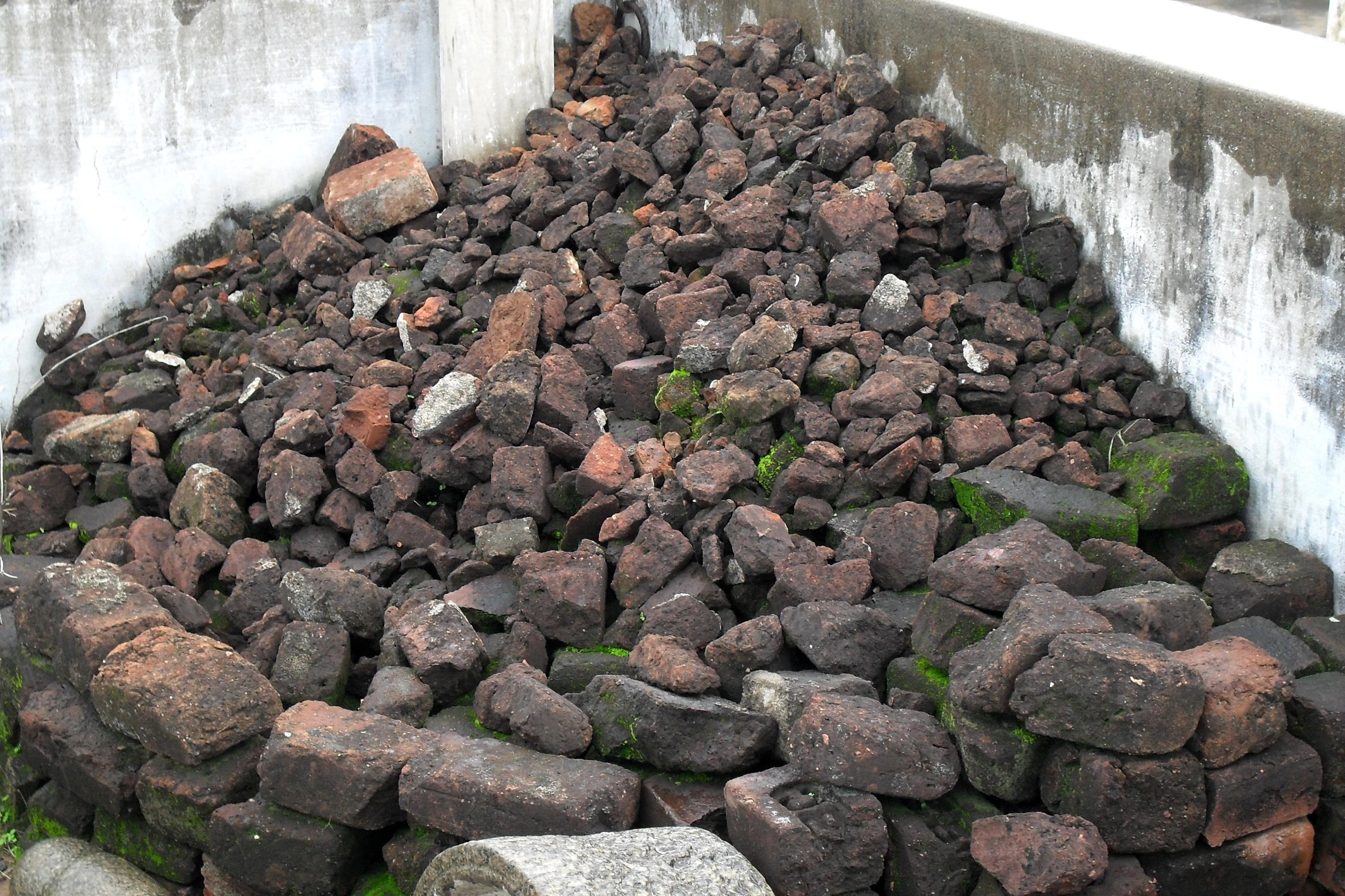 breaked bricks of Tamil Nadu namely 'muut.tee'.